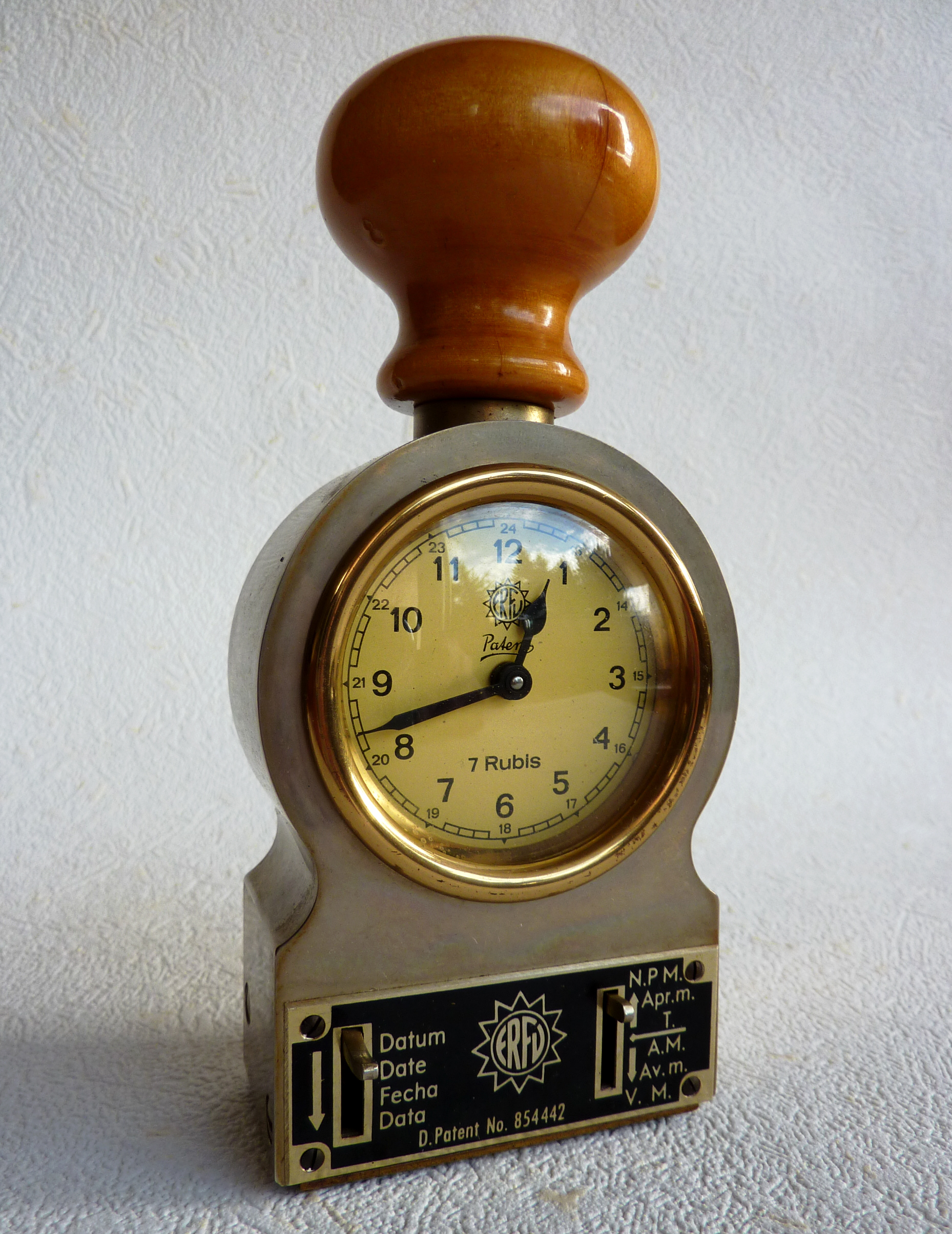 German date and time stamp, used to stamp documents with the current time and date, about 1960. Uses hand wound mechanical clockwork, eight days running time.